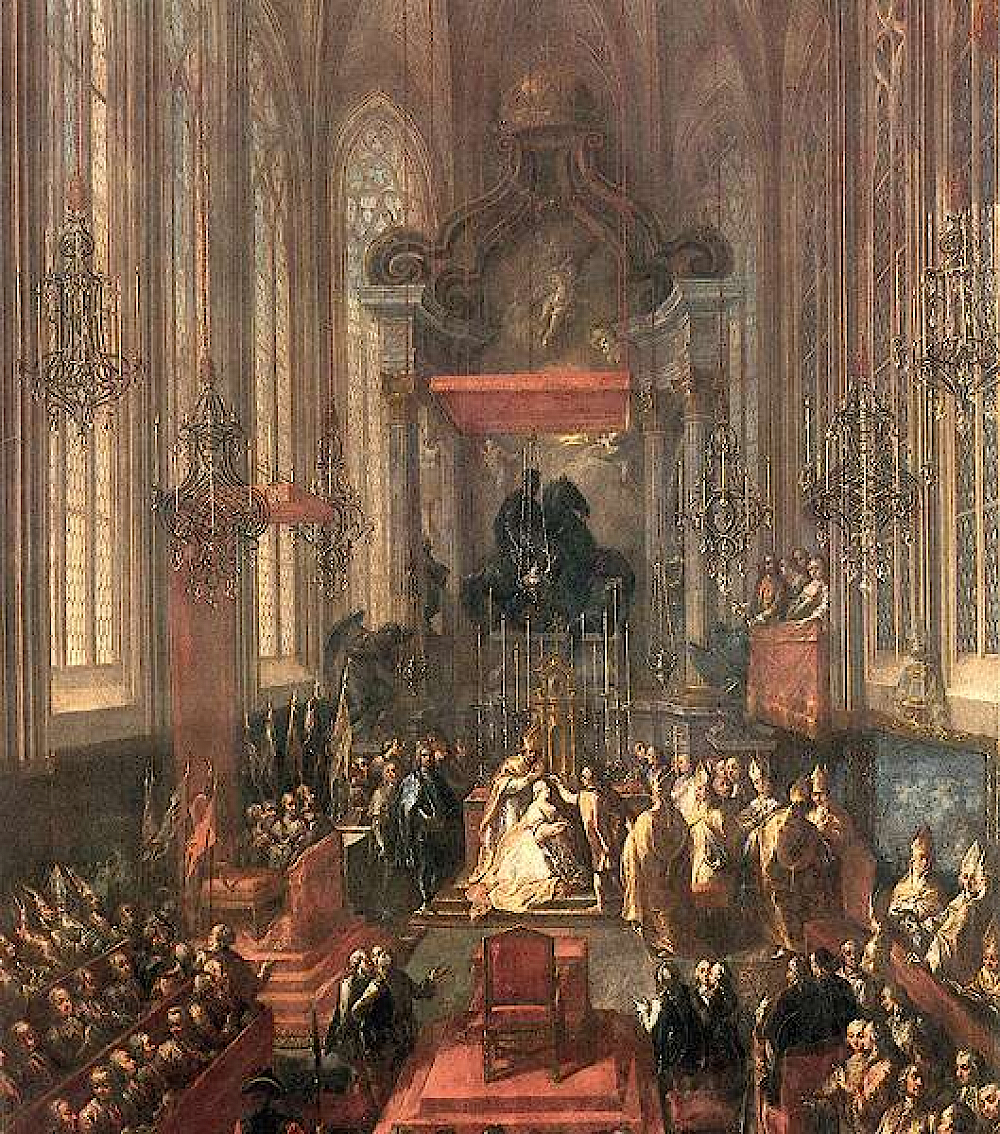 The coronnation of Maria Theresa in St. Martin´s Cathedral. Courtesy of the Museum of the City of Bratislava, The coronation of Maria Theresa of Austria, Empress of Austria.